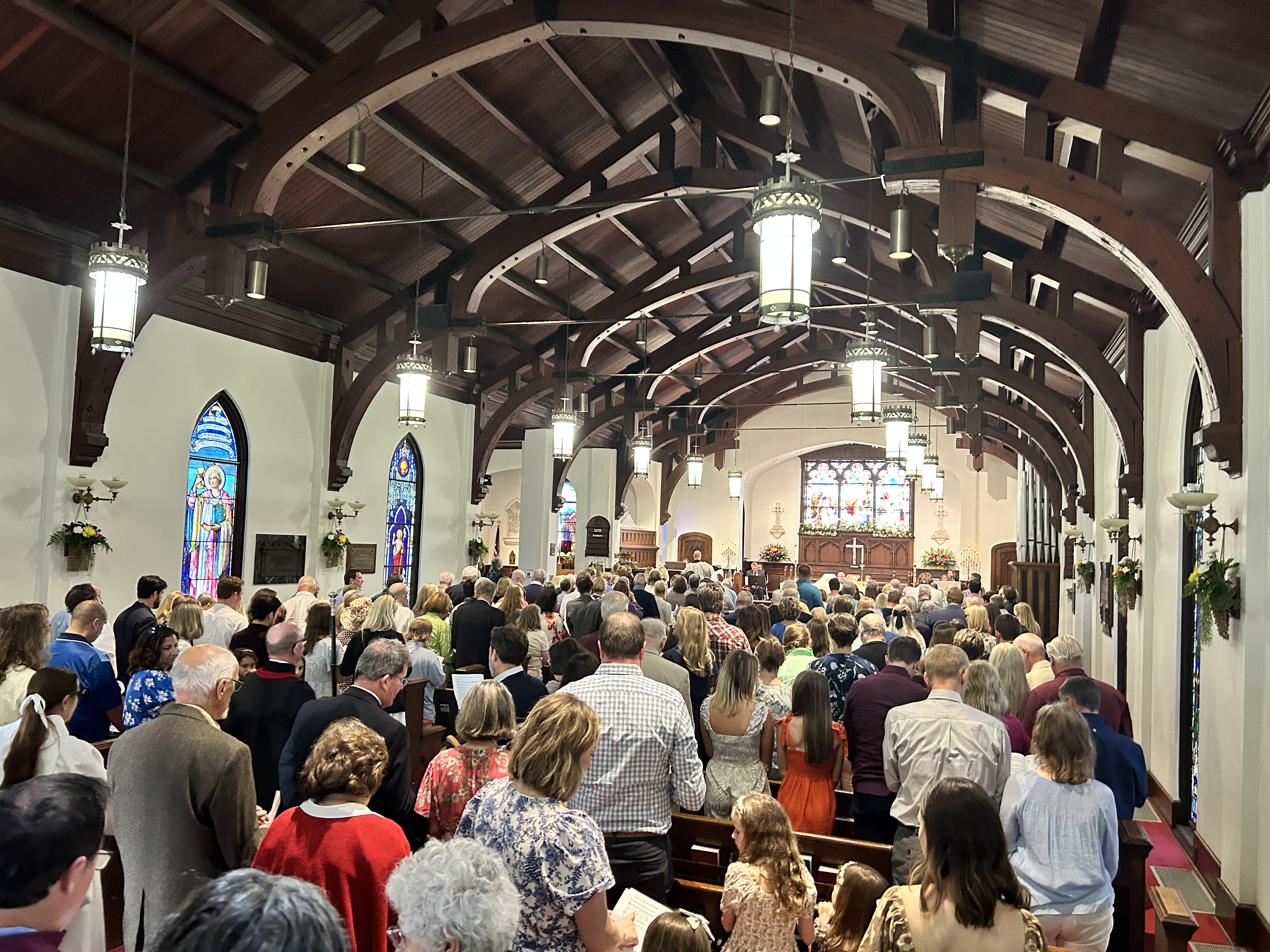 The University at Albany's Downtown Campus